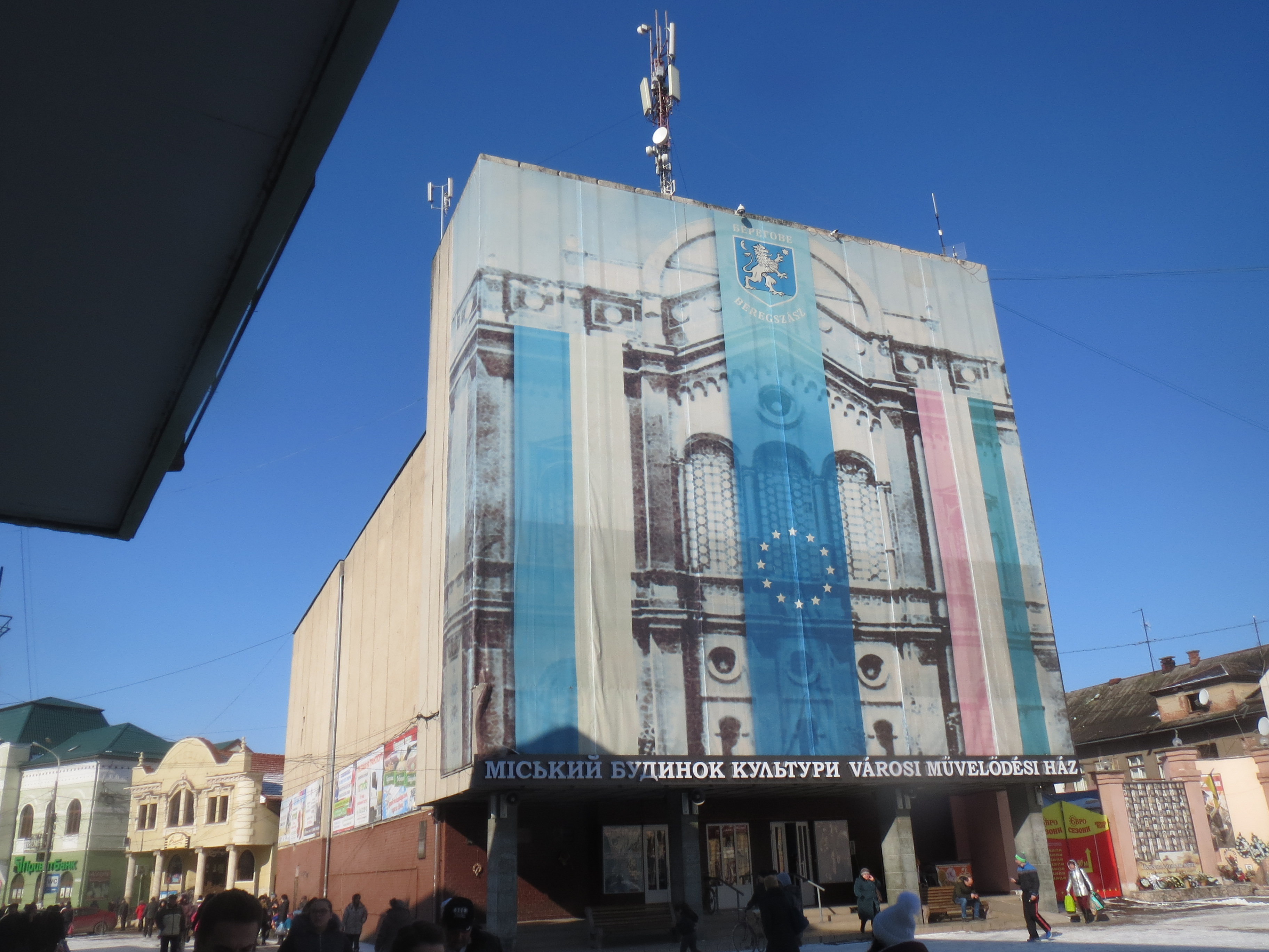 Former synagoge in Berehove.